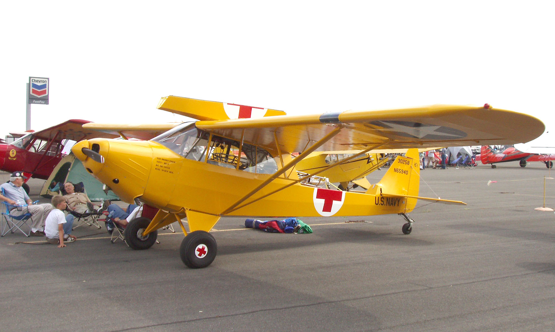 Piper Navy ambulance plane.